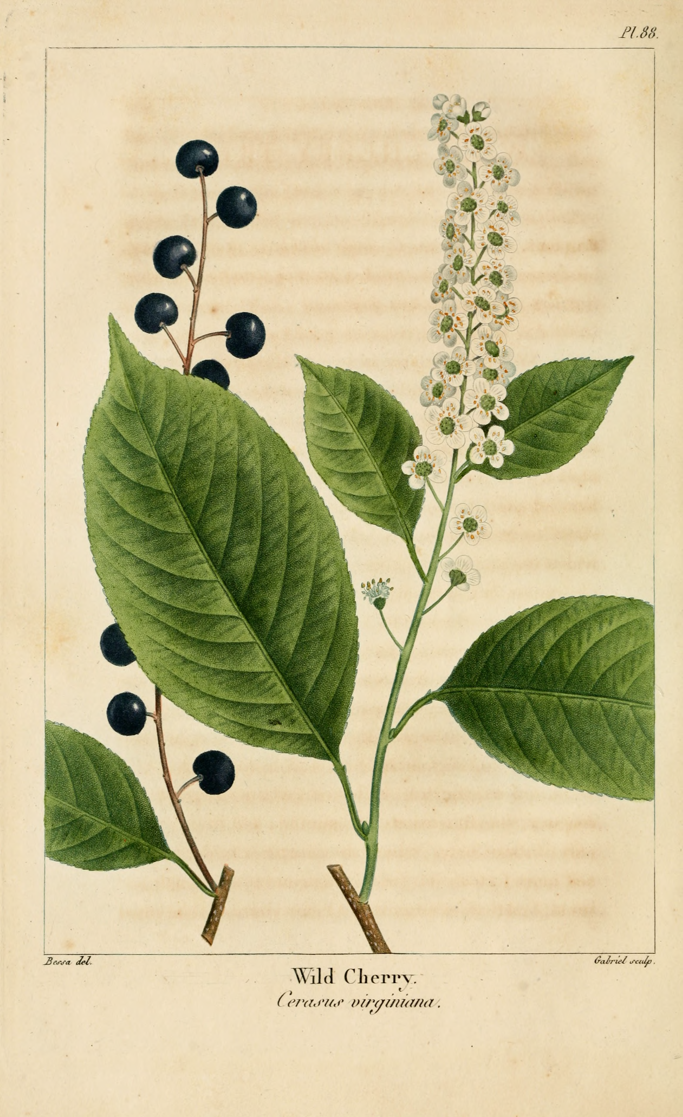 Plate from The North American Sylva.Caption: Wild Cherry. Cerasus virginiana